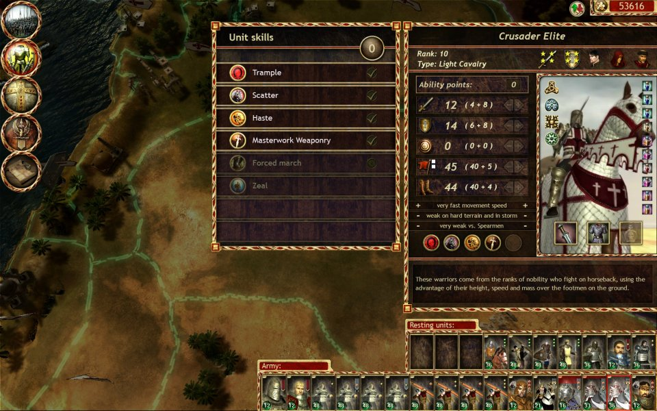 Image is of a screenshot from Kings' Crusade, a NeocoreGames video game.